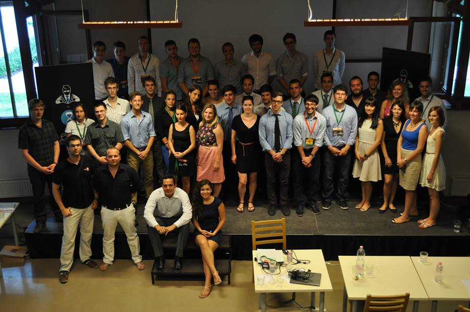 Group photo of the participants and the organizers of Management Academy 2013